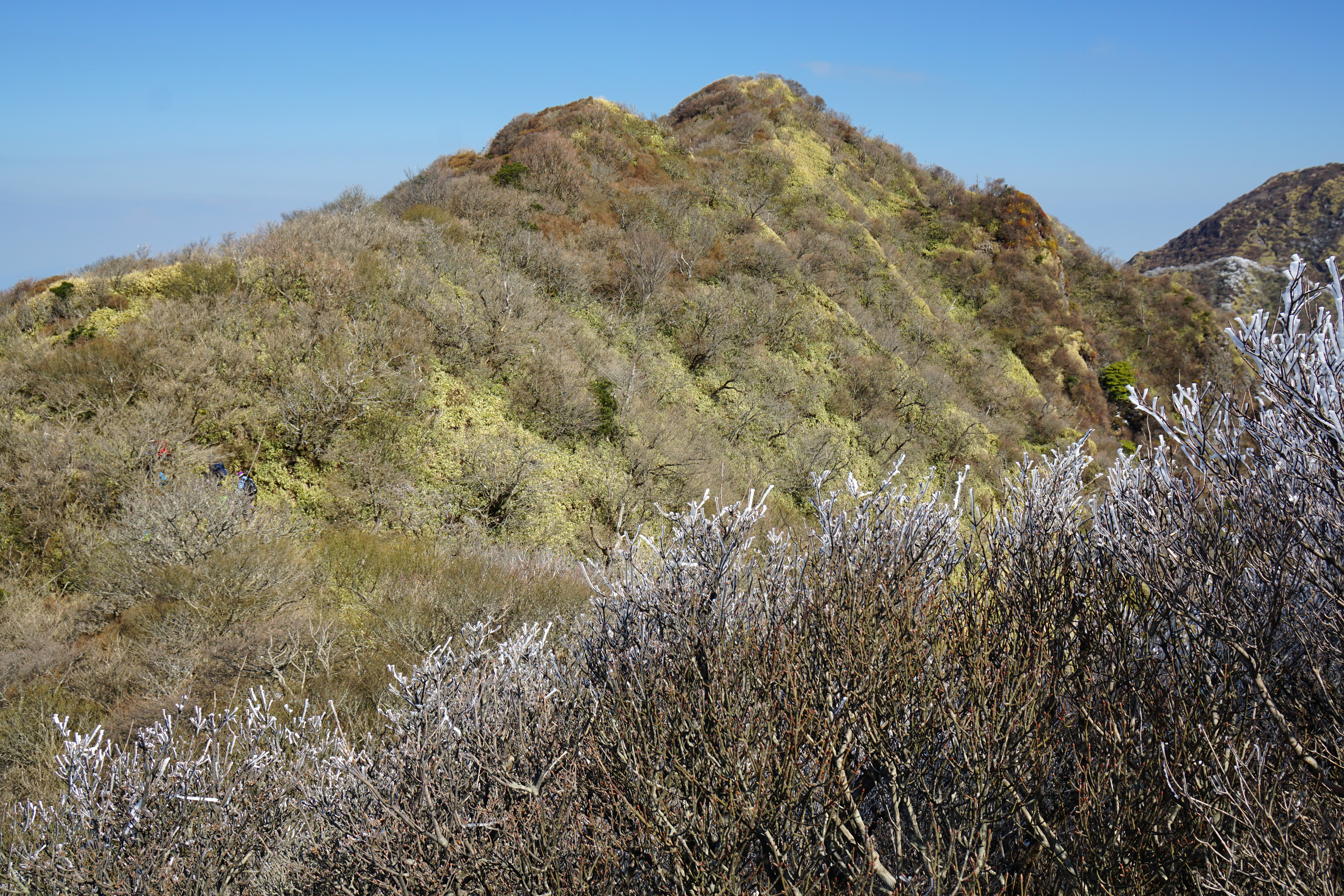 Mount Heisei-shinzan and Mout Fugen-dake are part of Unzen volcanic complex at Unzen City, Nagasaki prefecture, Japan.